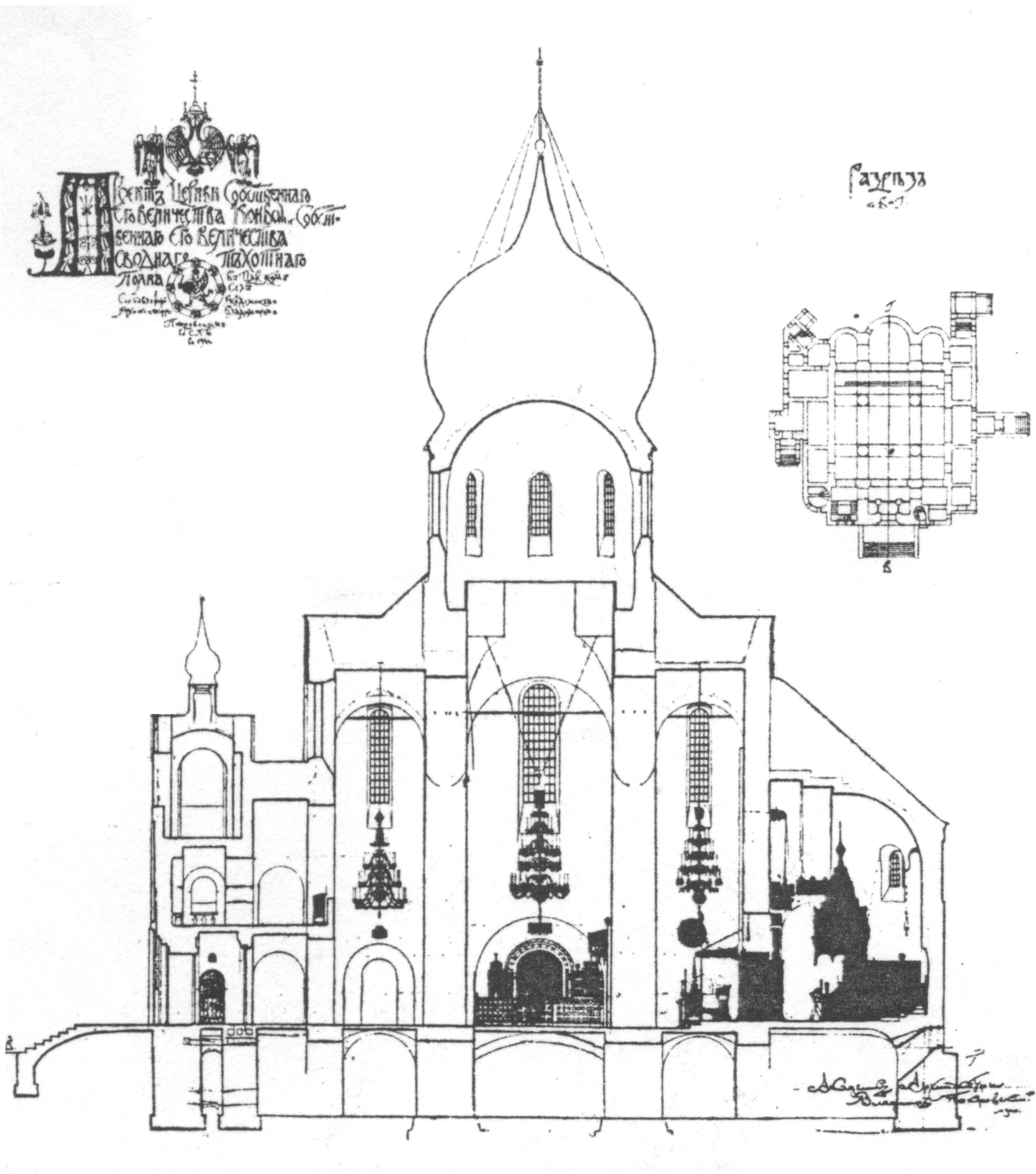 Feodorovsky Cathedral in Tsarskoye Selo. Profile